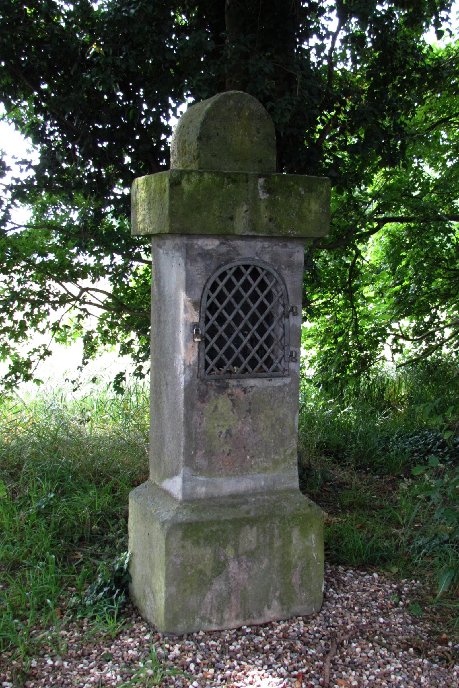 This is a photograph of an architectural monument.It is on the list of cultural monuments of Korschenbroich